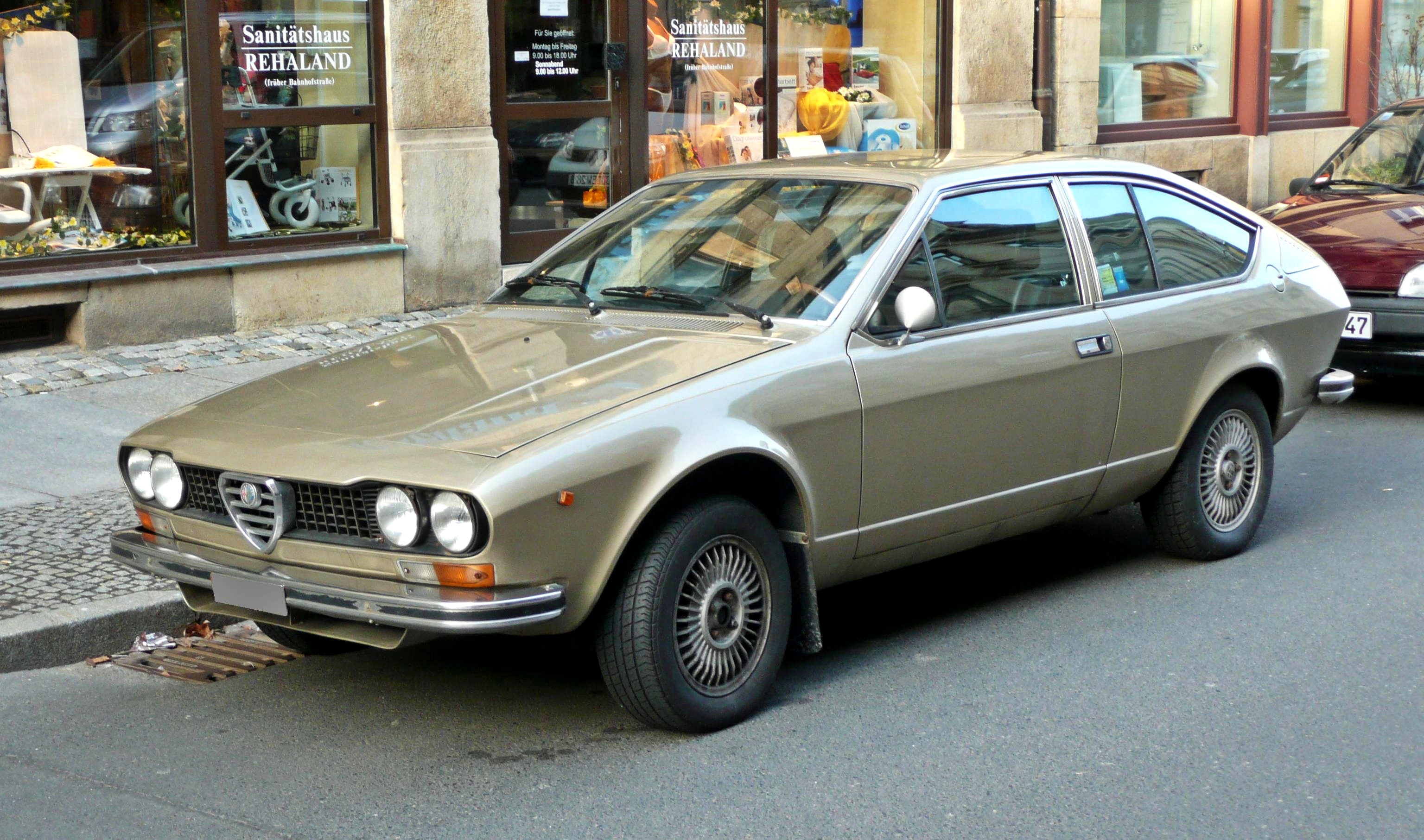 Alfa Romeo Alfetta GT.